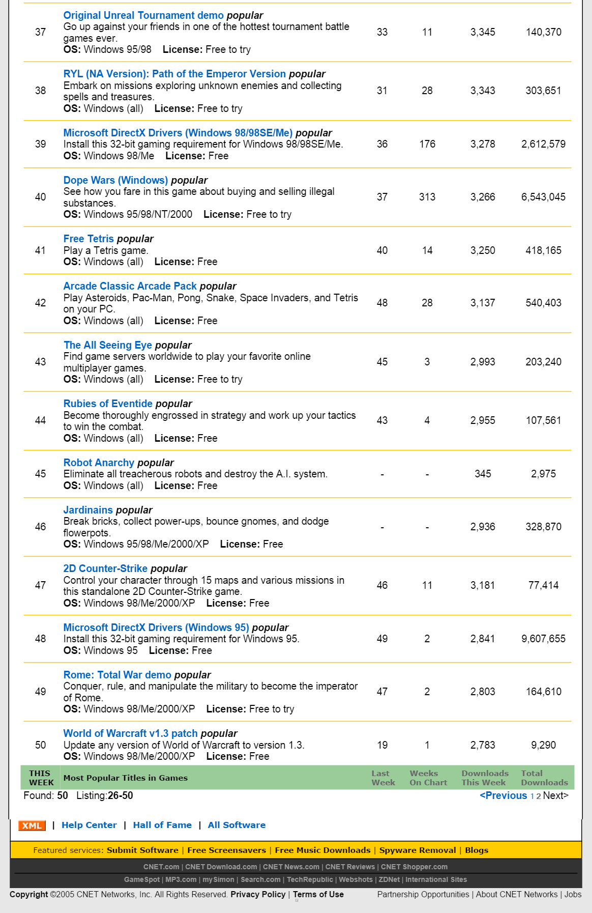 Dope Wars from Beermat Software at position 40, after 313 weeks and 6,543,045 downloads, on the "50 Most Popular Titles in Games" chart, April 9th, 2005.